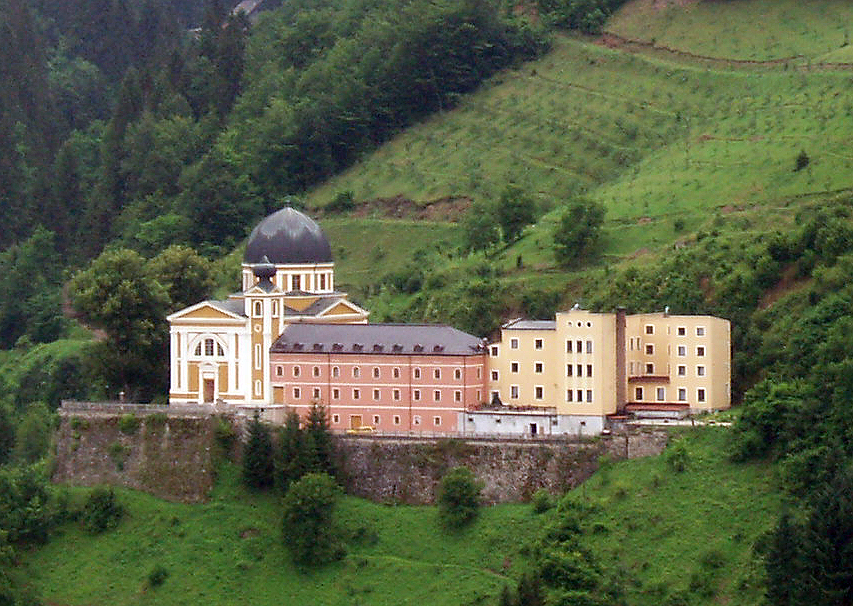 Taken by myself in summer 2005.